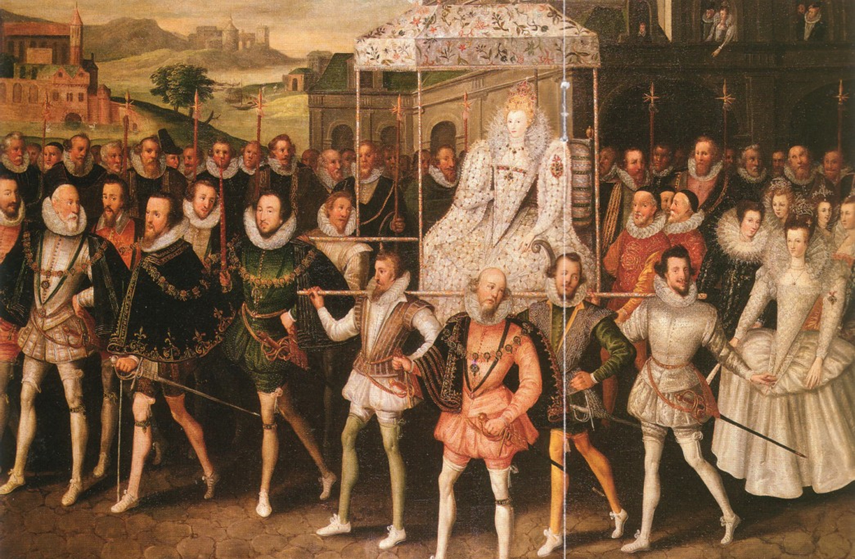 Procession portrait of Elizabeth I of England c. 1601. Queen Elizabeth I preceded by the Knights of the Garter. From left: Edmund Sheffield, later Earl of Mulgrave; Thomas Howard, Lord Howard of Effingham and Lord Admiral; George Clifford, Earl of Cumberland; George Carey, Lord Hunsten; unknown knight, possibly Robert Radcliffe, Earl of Sussex; and Gilbert Talbot, Earl of Shrewsbury, carrying the Sword of State. In the foreground is Edward Somerset, 4th Earl of Worcester, Master of the Horse. Of the four men carrying the canopy only the one in white on the far right has been identified: Worcester's eldest son, Lord Herbert. Source: Strong, Roy. Gloriana. Thames and Hudson, 1987, pp. 154-5.